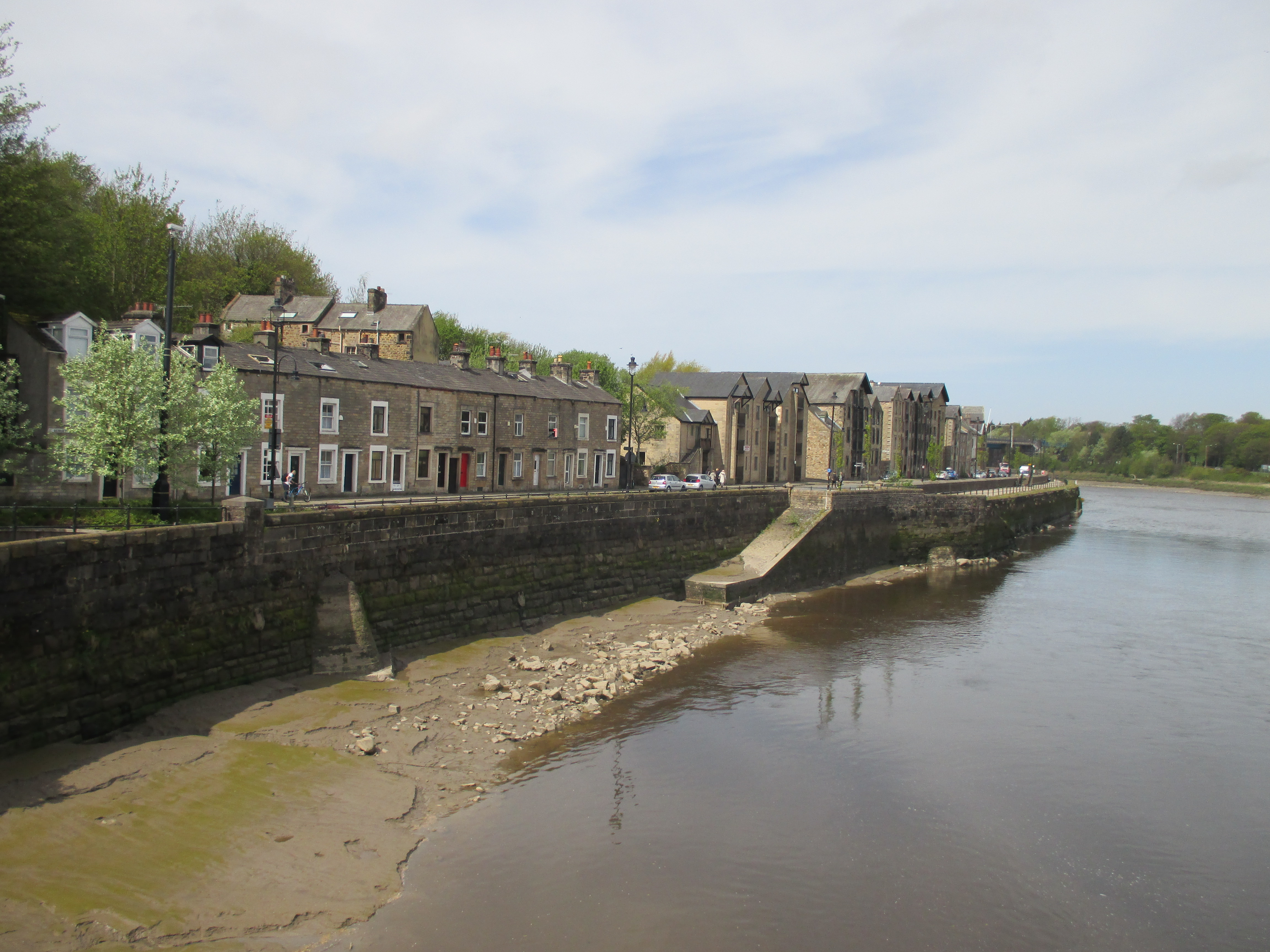 St. George's Quay, on the south bank of the River Lune, Lancaster, Lancashire, photographed from the Lune Millennium Bridge to the east. Vicarage Terrace is behind and above St. George's Quay.